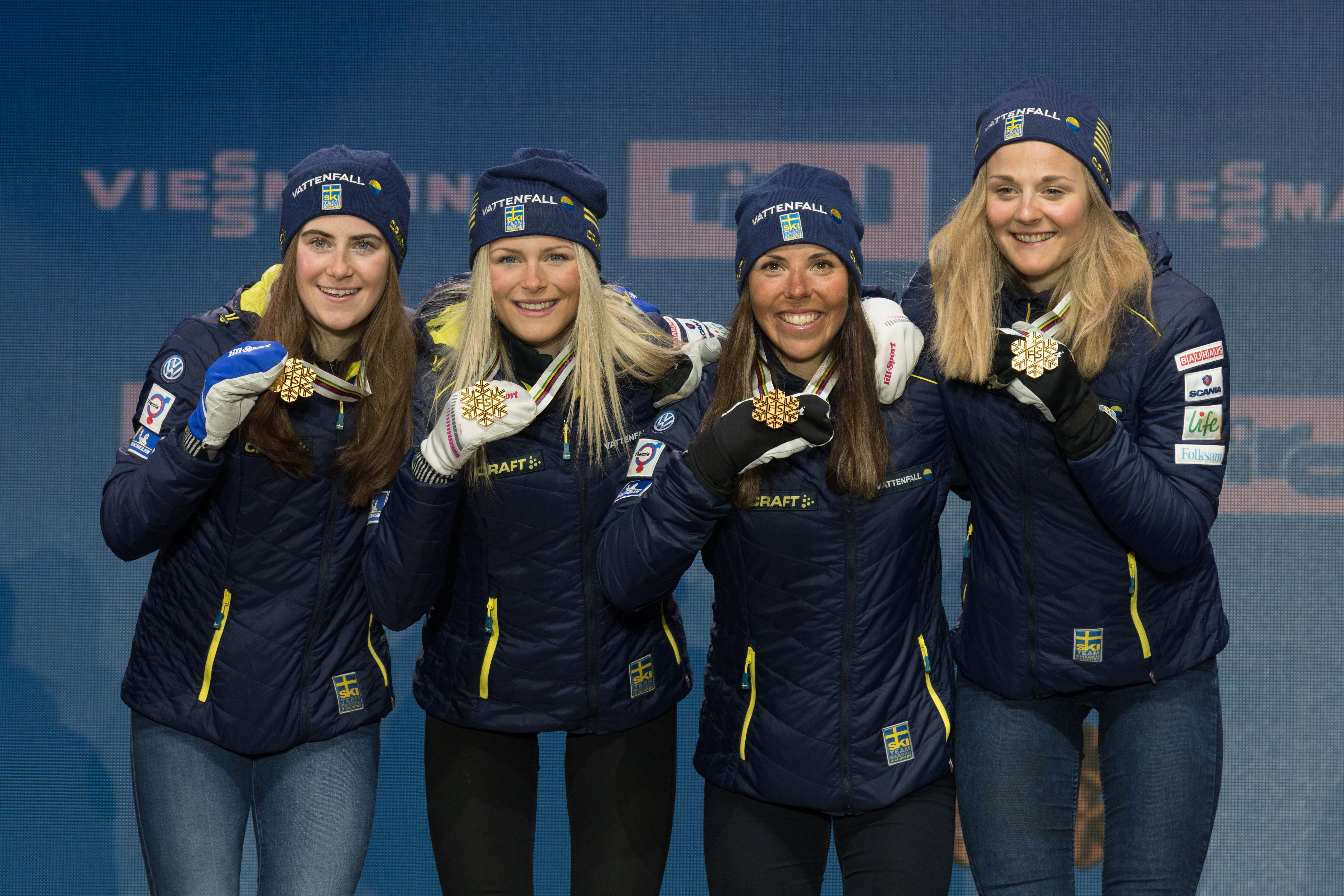 FIS Nordic Wolrd Ski Championships Seefeld 2019 - Medal Ceremony at the Medal Plaza. Picture shows Team Sweden with Ebba Andersson (SWE), Frida Karlsson (SWE), Charlotte Kalla (SWE) and Stina Nilsson (SWE).